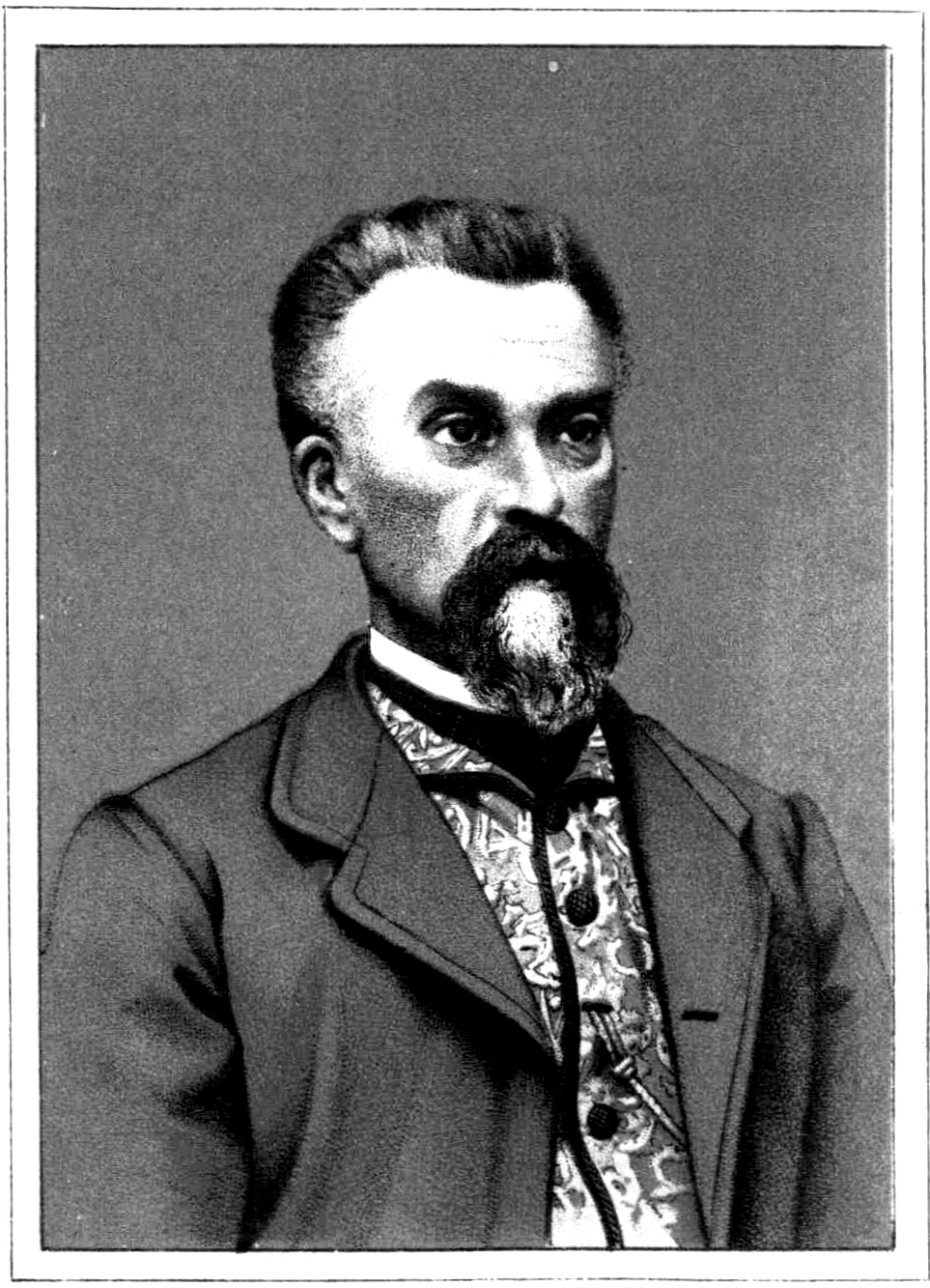 Theodoros Ipitis (1822-1879): Greek soldier